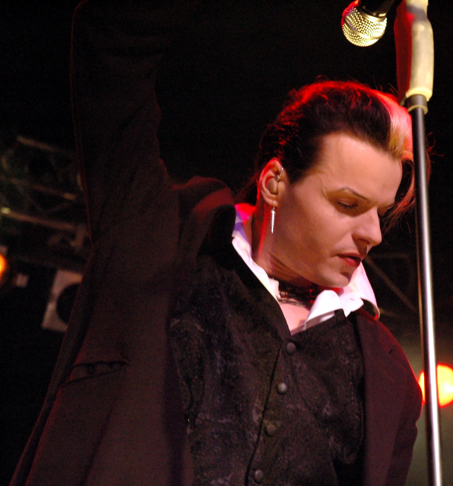 Tilo Wolff from Lacrimosa